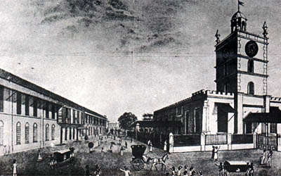 St Thomas Cathedral in Mumbai in its early days.